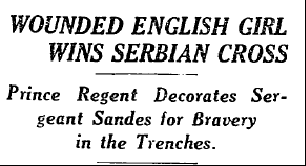 New York Times newspaper clipping reporting Flora Sandes' decoration for her service in the Serbian Army.